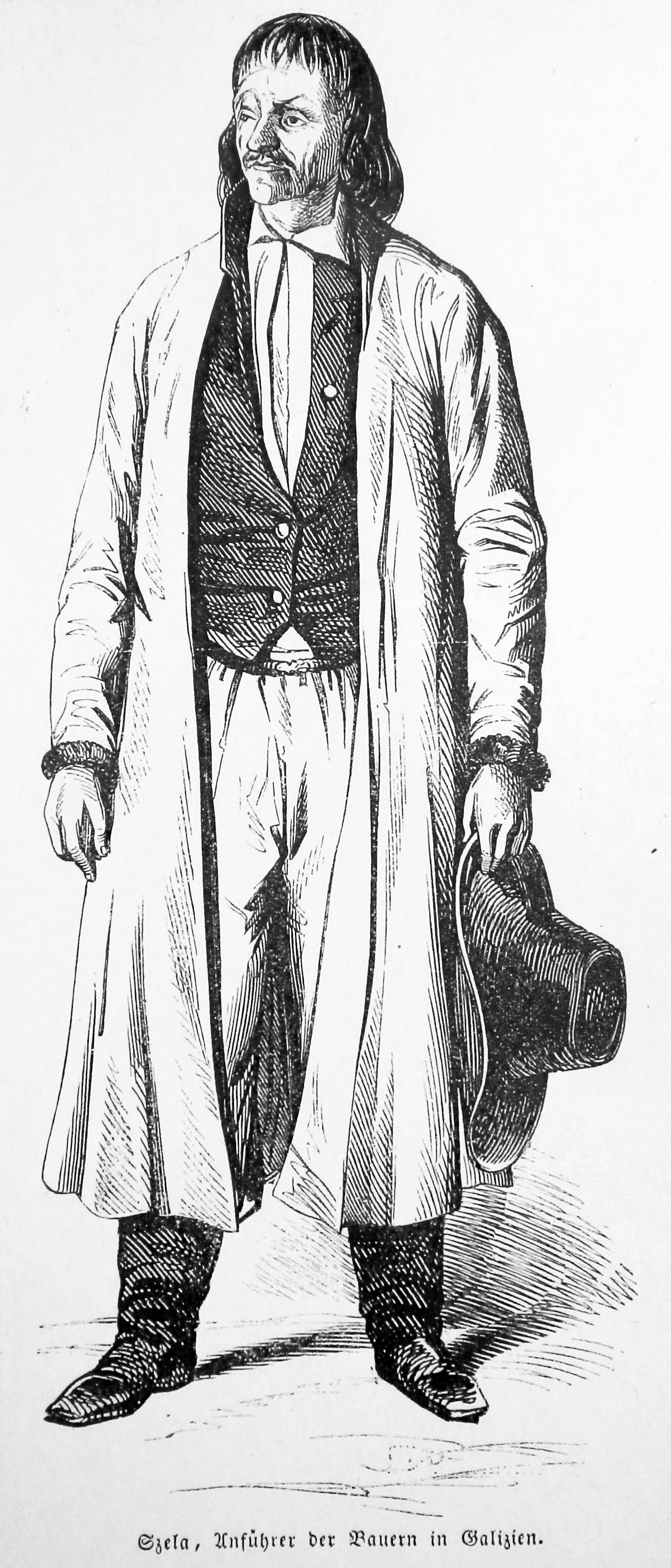 Jakub Szela, a Polish leader of a pro-Austrian peasant uprising against the Polish gentry in Galicia in 1846